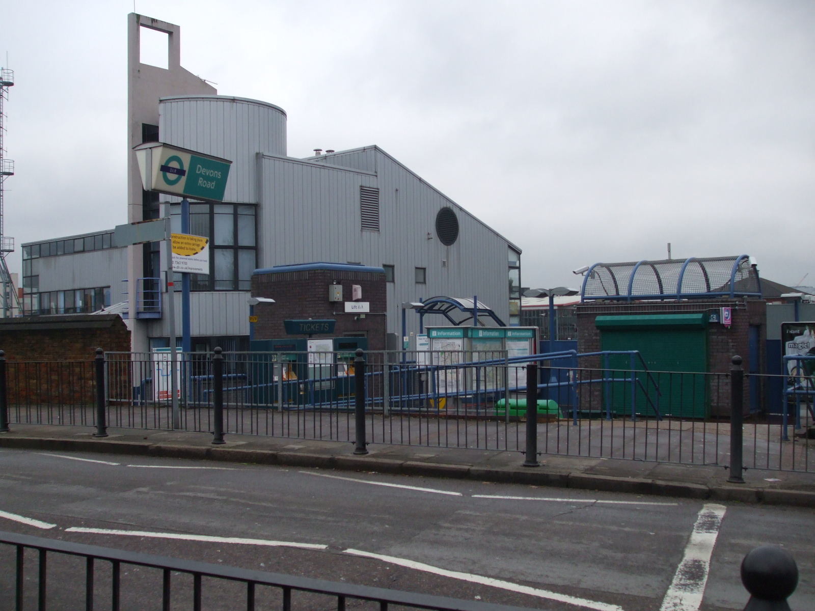 Devons Road DLR station